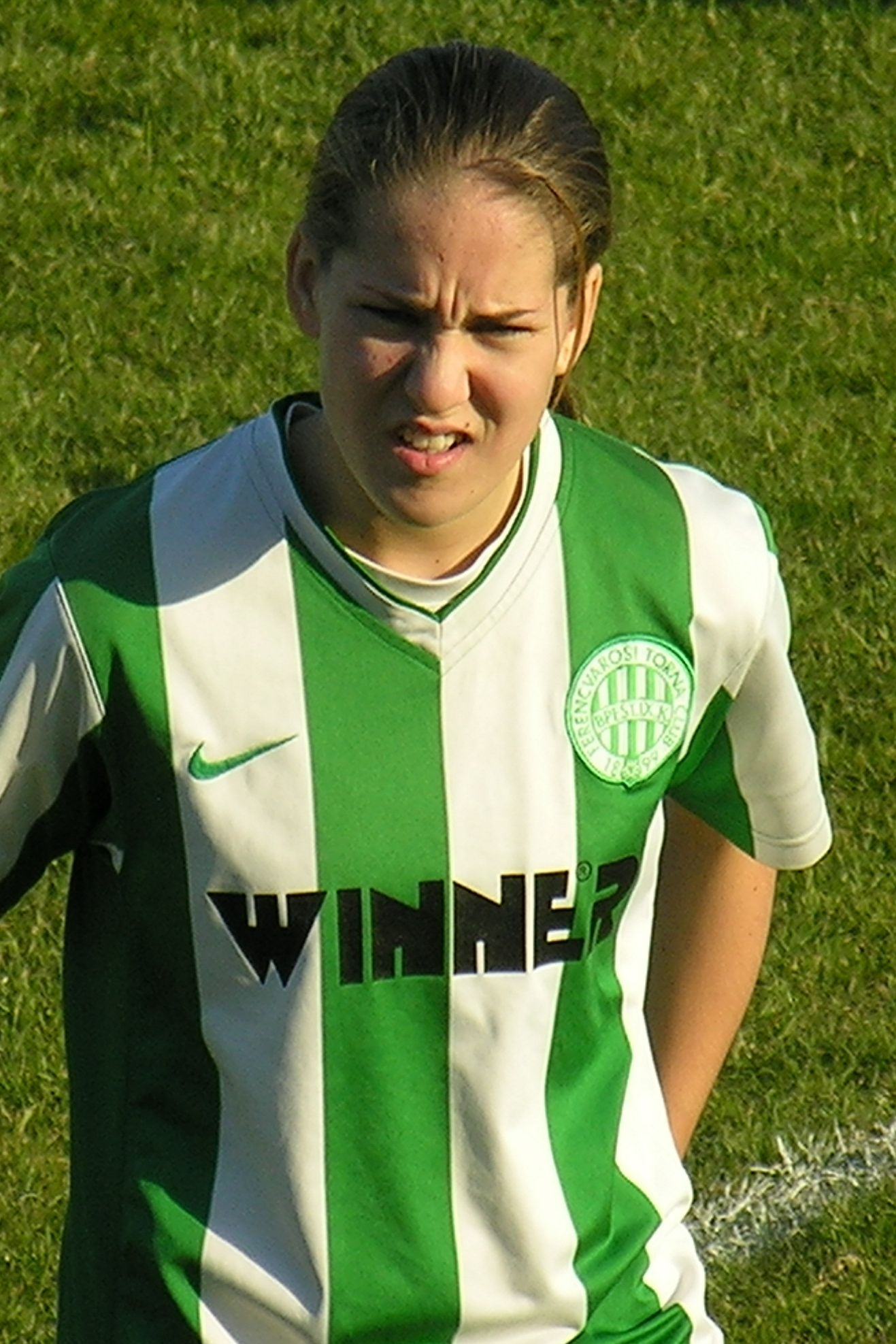 Evelin Mosdóczi Hungarian football player